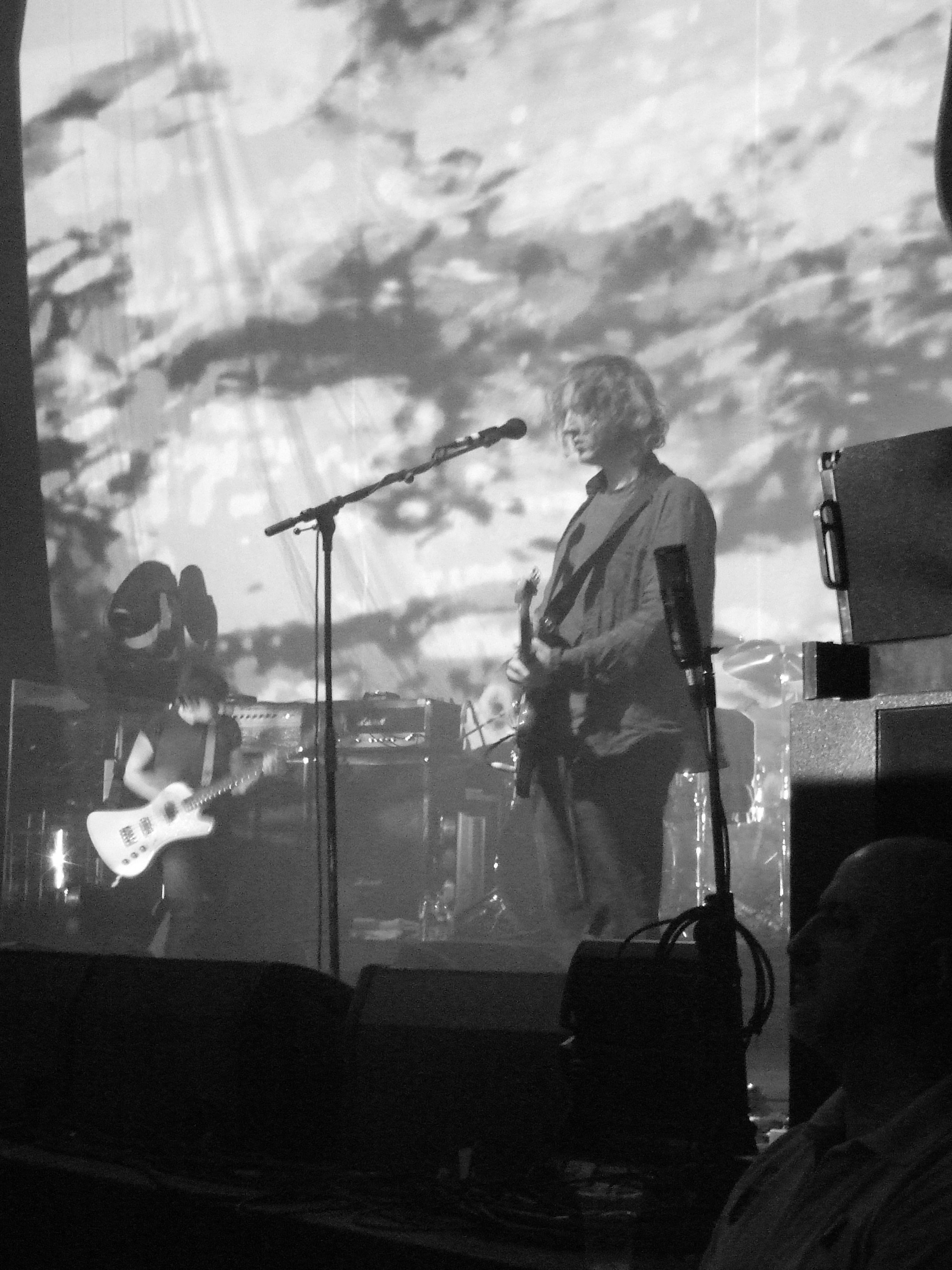 My Bloody Valentine @ The Roundhouse